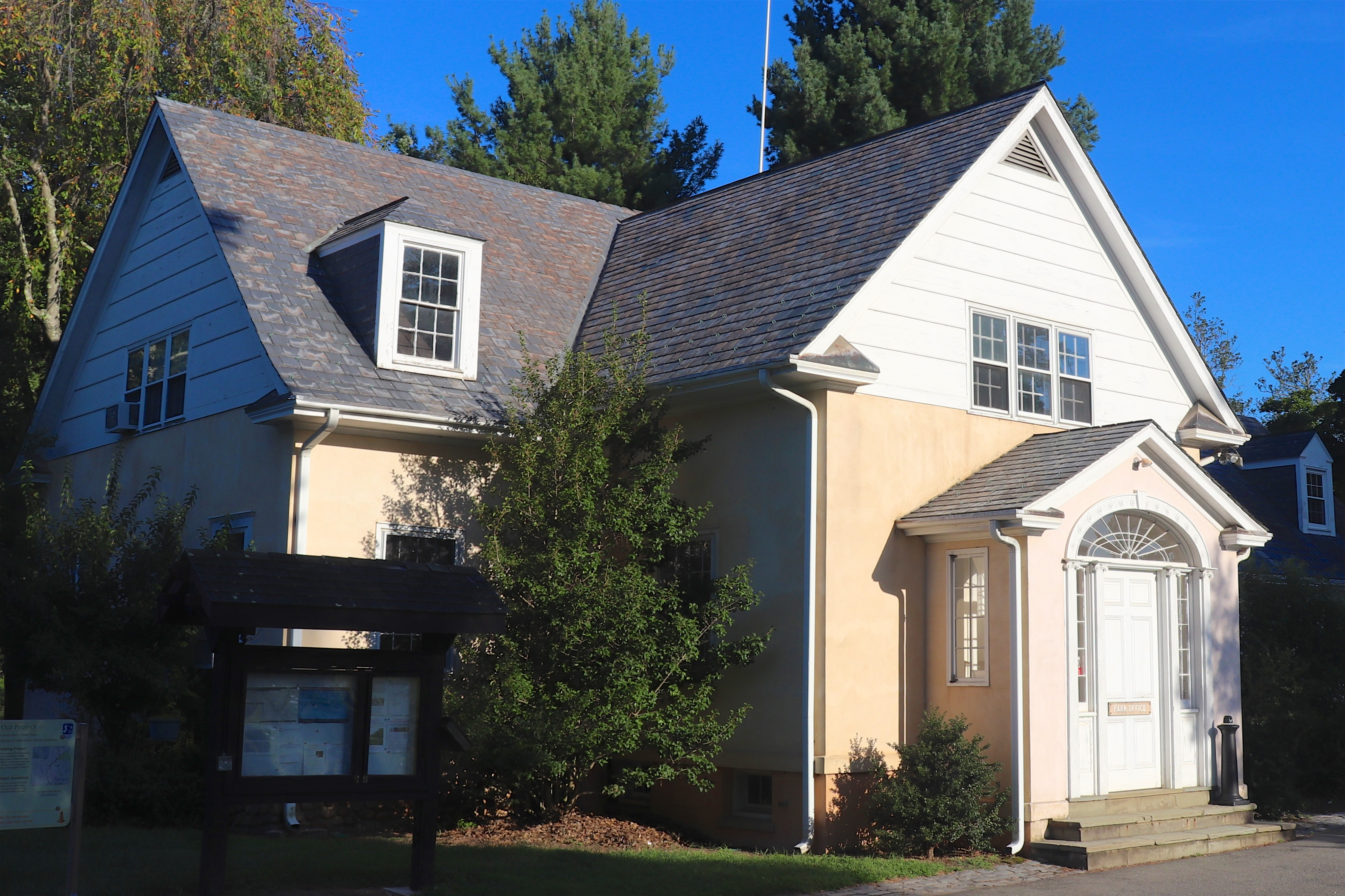 Former Sales and Administration building of Princeton Nurseries in Middlesex County, New Jersey. Now headquarters for the Delaware and Raritan Canal State Park.